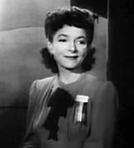 Cropped screenshot of Helen Hayes from the film Stage Door Canteen.